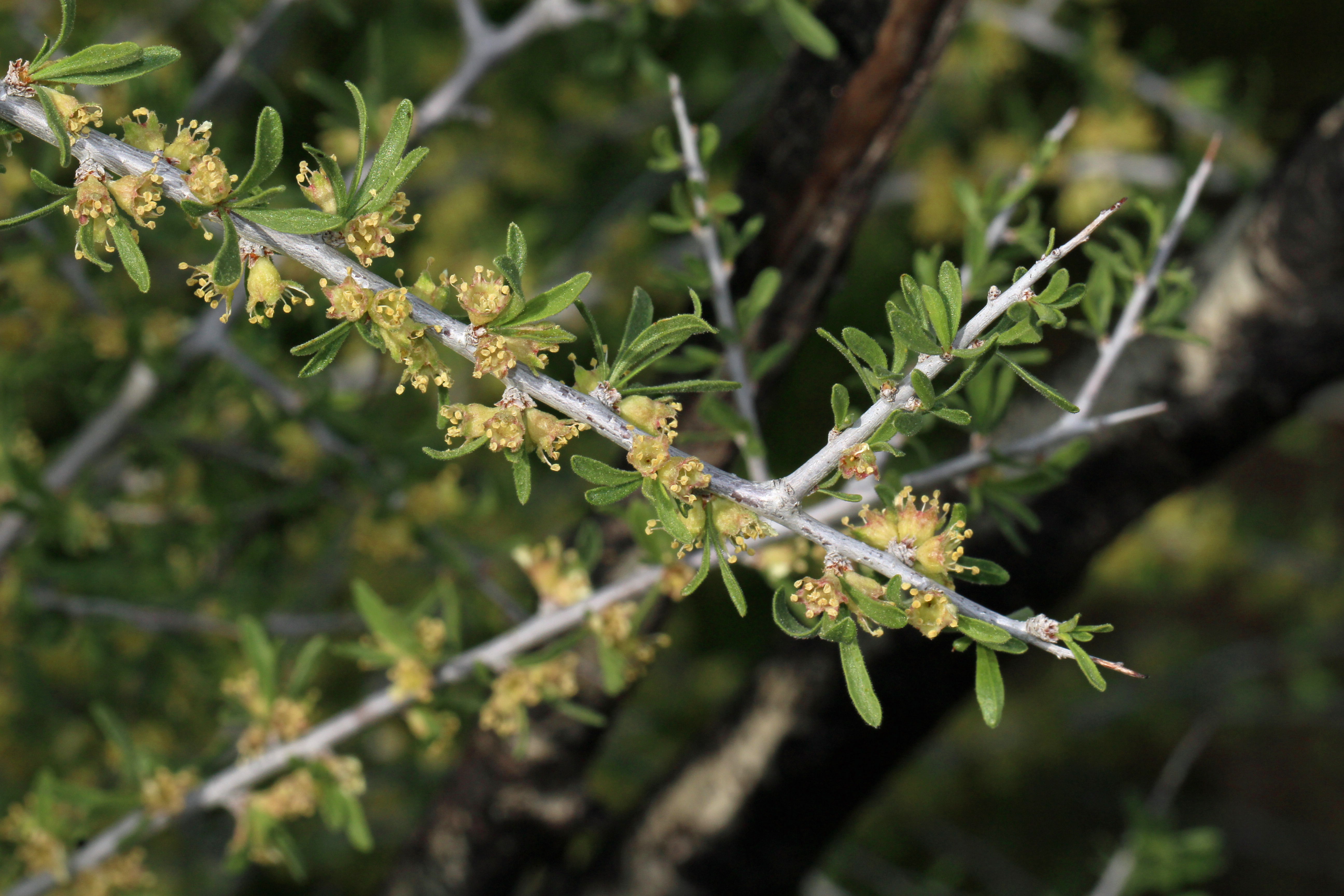 Desert Almond Identification by: Linda Edwards and Vern Benhart Viewpoint location: Dry wash west of Godde Hill Road, 150 m north of Hacienda Ranch Road; Lancaster, California Viewpoint elevation: 943 meter (3093 ft) Location source: Garmin GPSmap 60CSx Location Datum: WGS84